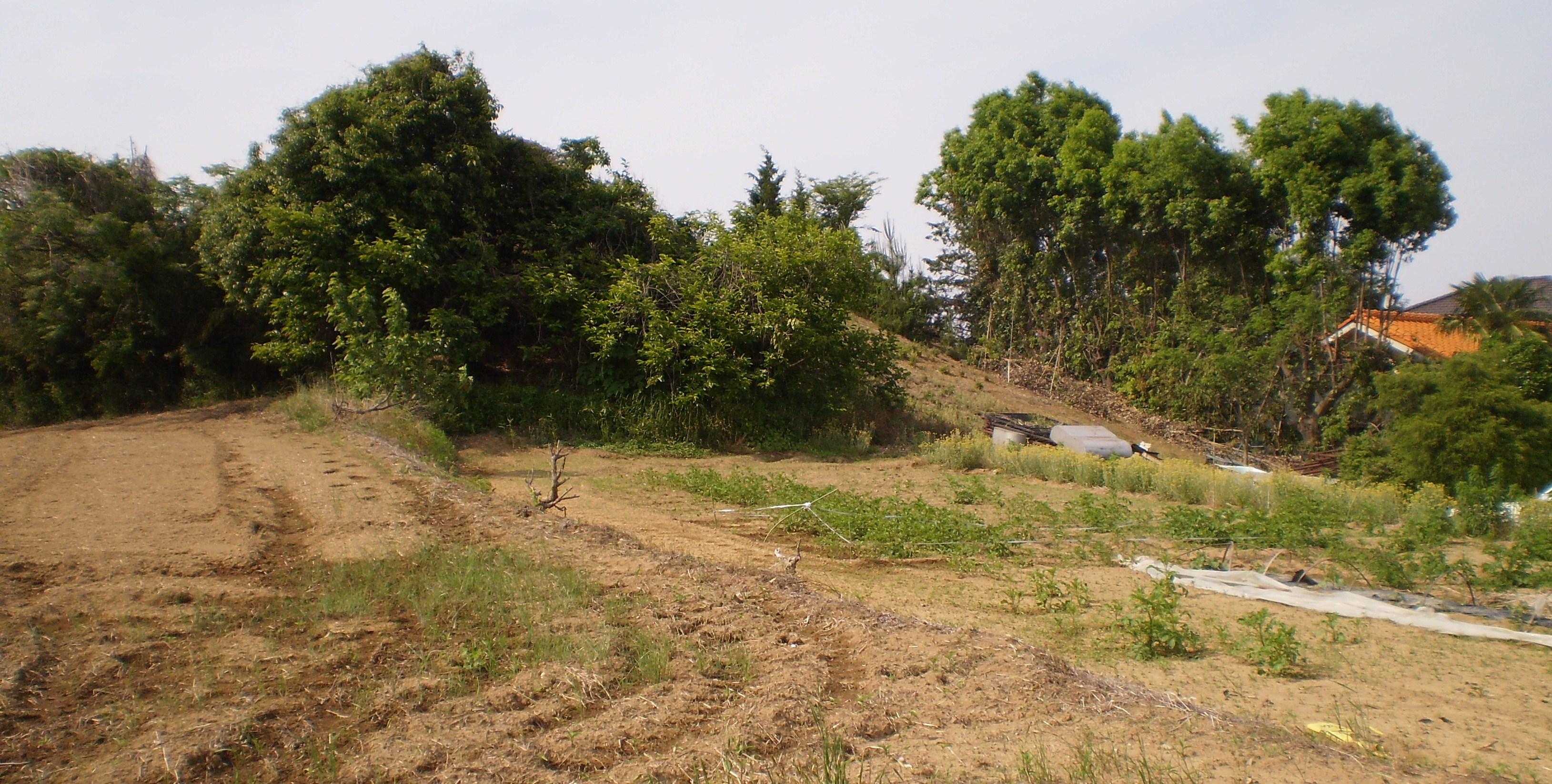 a close-range view of Sagiyama Kofun